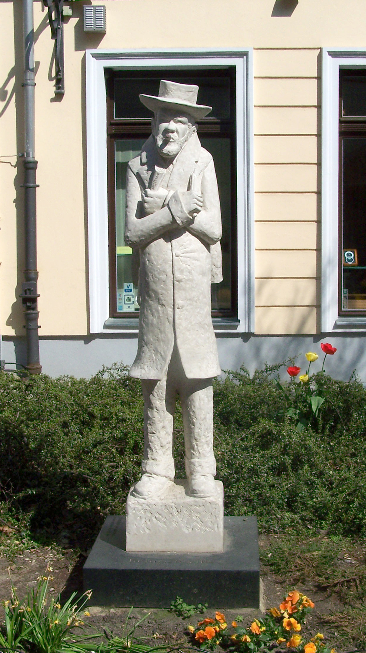 Statue of Heinrich Zille by Thorsten Stegmann, placed at the Poststraße in Nicolai-viertel (Berlin Mitte) in 2007.